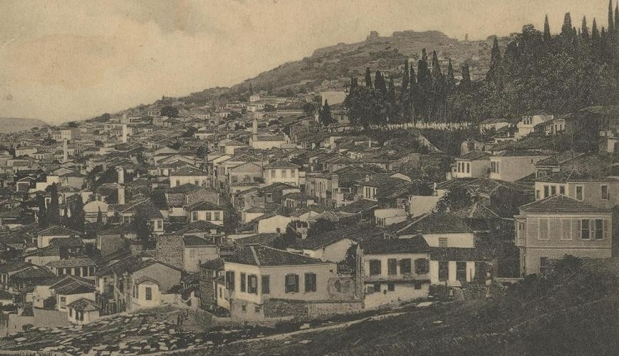 General view of Kadifekale, İzmir, Turkey, circa 1880s